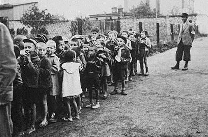 Ghetto Litzmannstadt: Children rounded up for deportation to the Chelmno death camp